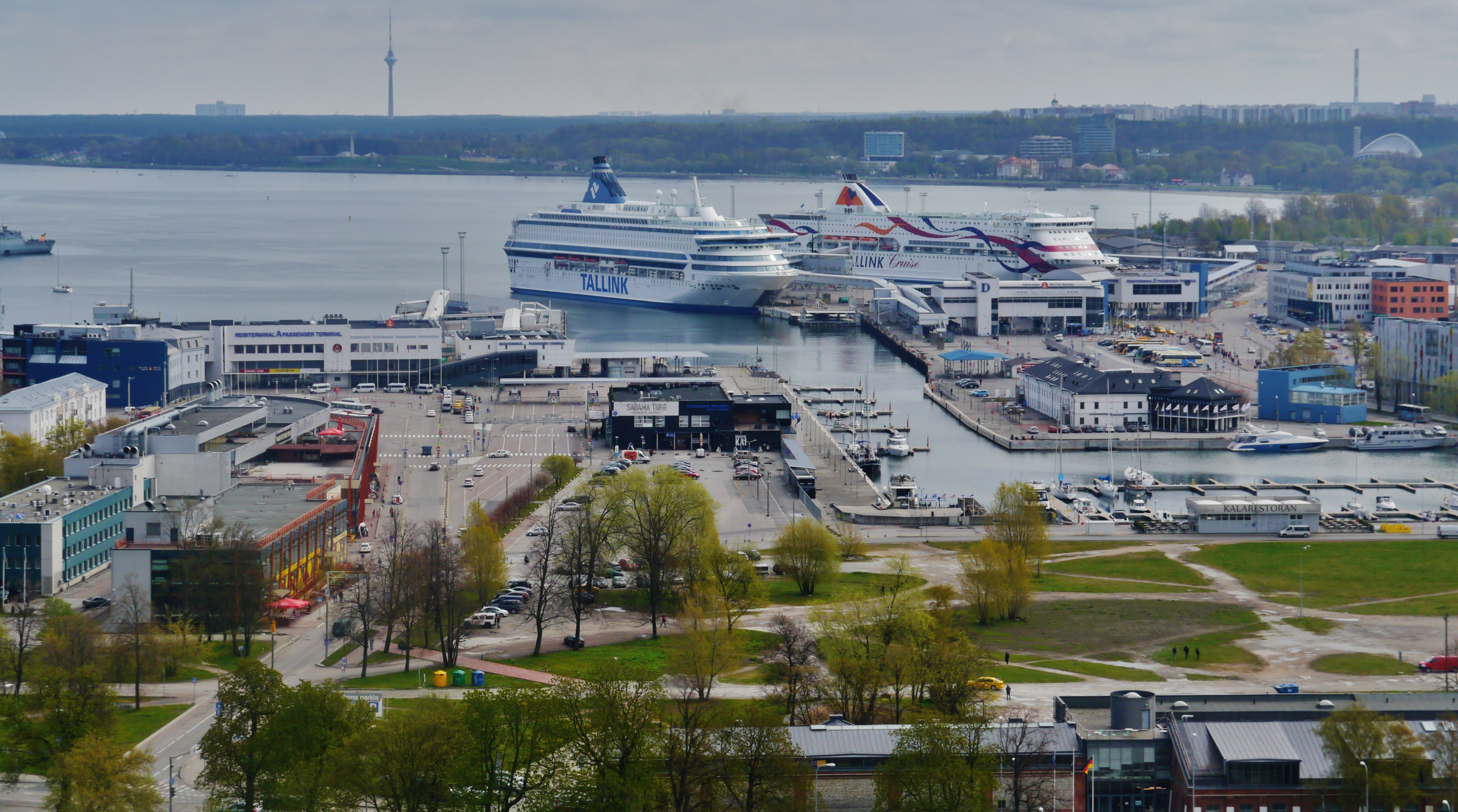 View from St. Olaf's Church to the Port, Tallinn, Estonia